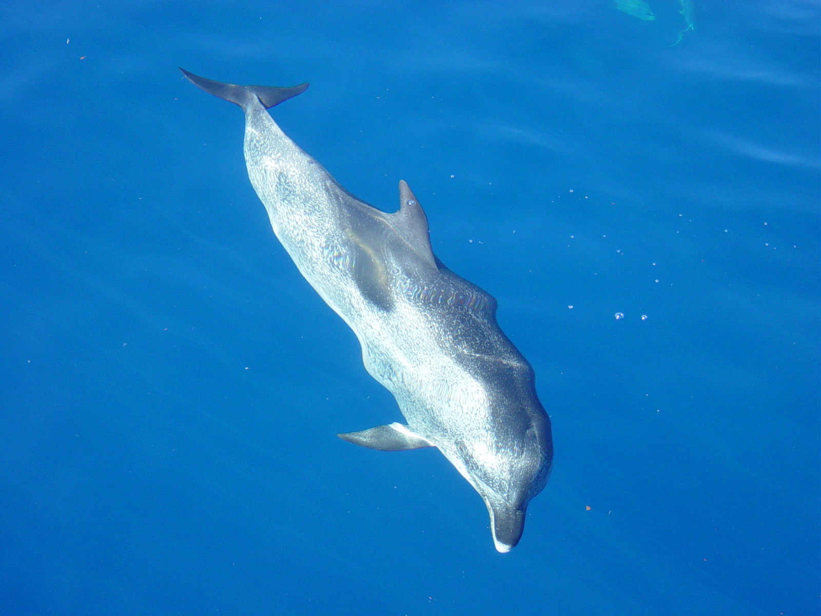 Stenella frontalis Atlantic spotted dolfin in south of Pico island, Azores.